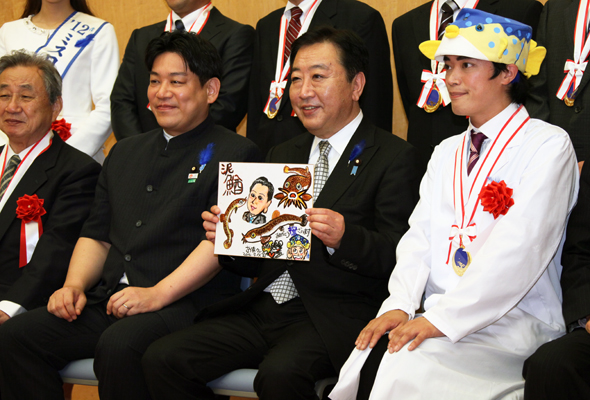 Masayuki Miyazawa, Visiting Associate Professor of the Office of Liaison and Cooperative Research, Tokyo University of Marine Science and Technology, Jirō Hoshino, former President of Mitsui Engineering & Shipbuilding Co., Ltd., and so on received a certificate of commendation from Yoshihiko Noda, Prime Minister, at the Prime Minister's Official Residence in Chiyoda Ward, Tōkyō Metropolis on July 13, 2012. After that, they posed for the photo with Noda and Yūichirō Hata, Minister of Land, Infrastructure, Transport and Tourism.